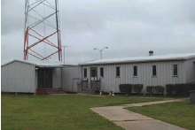 Current facilities of Red River Radio in Shreveport, LA (in 2007), as depicted in the article KDAQ Needs New Home. LSUS Magazine, Premier Issue, Spring, 2007, pg.22